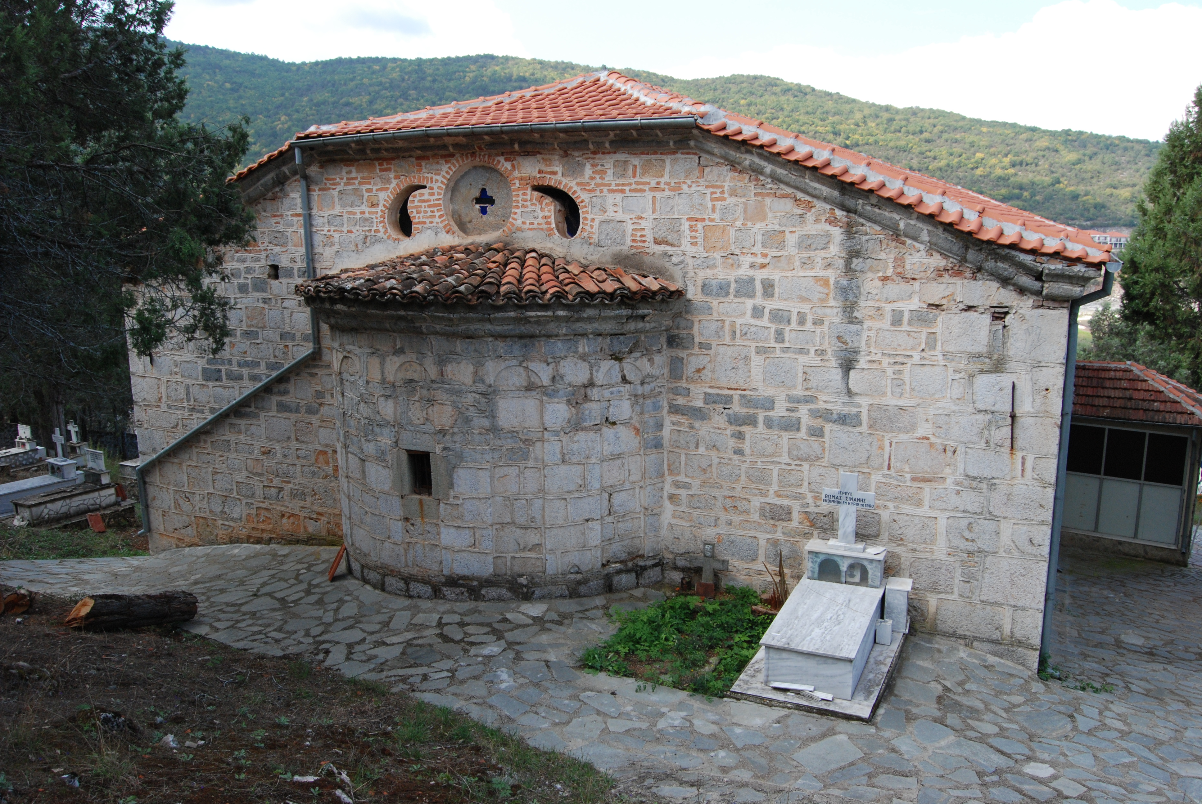 Assumption of Mary Church, Psarades